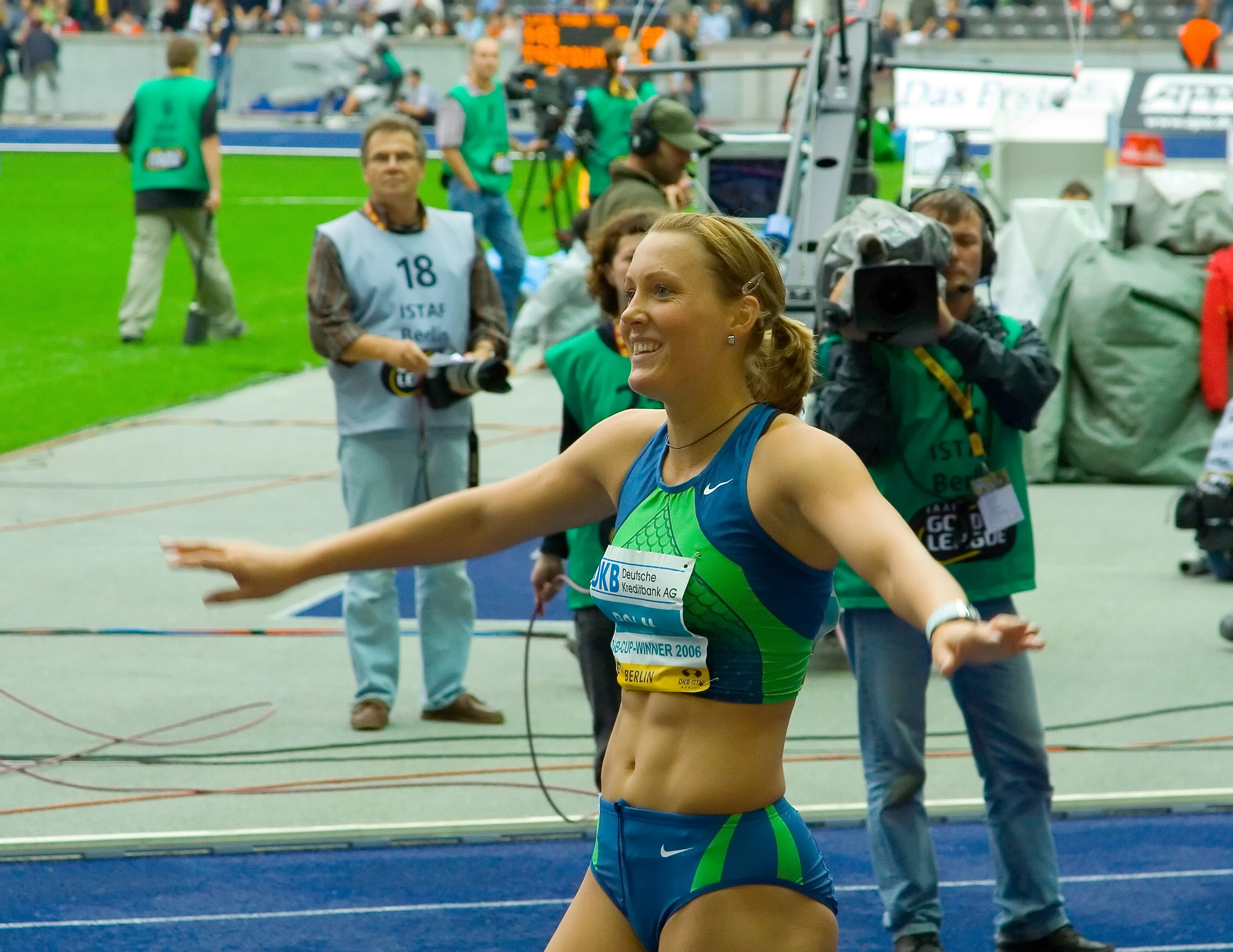 German athlete Kirsten Bolm at the 2006 Internationales Stadionfest